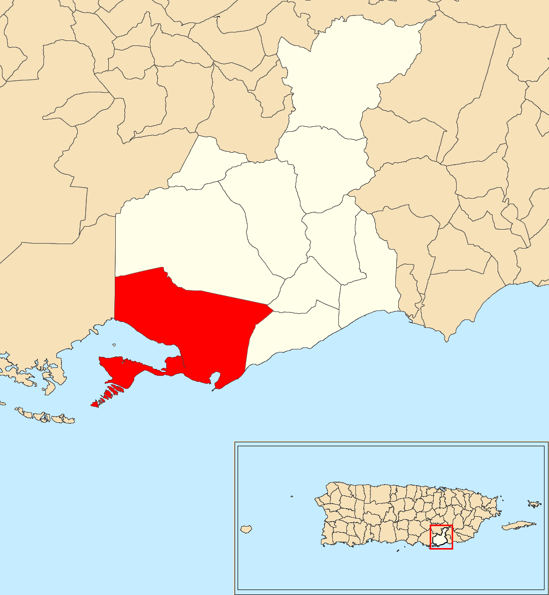 Jobos, Guayama, Puerto Rico locator map